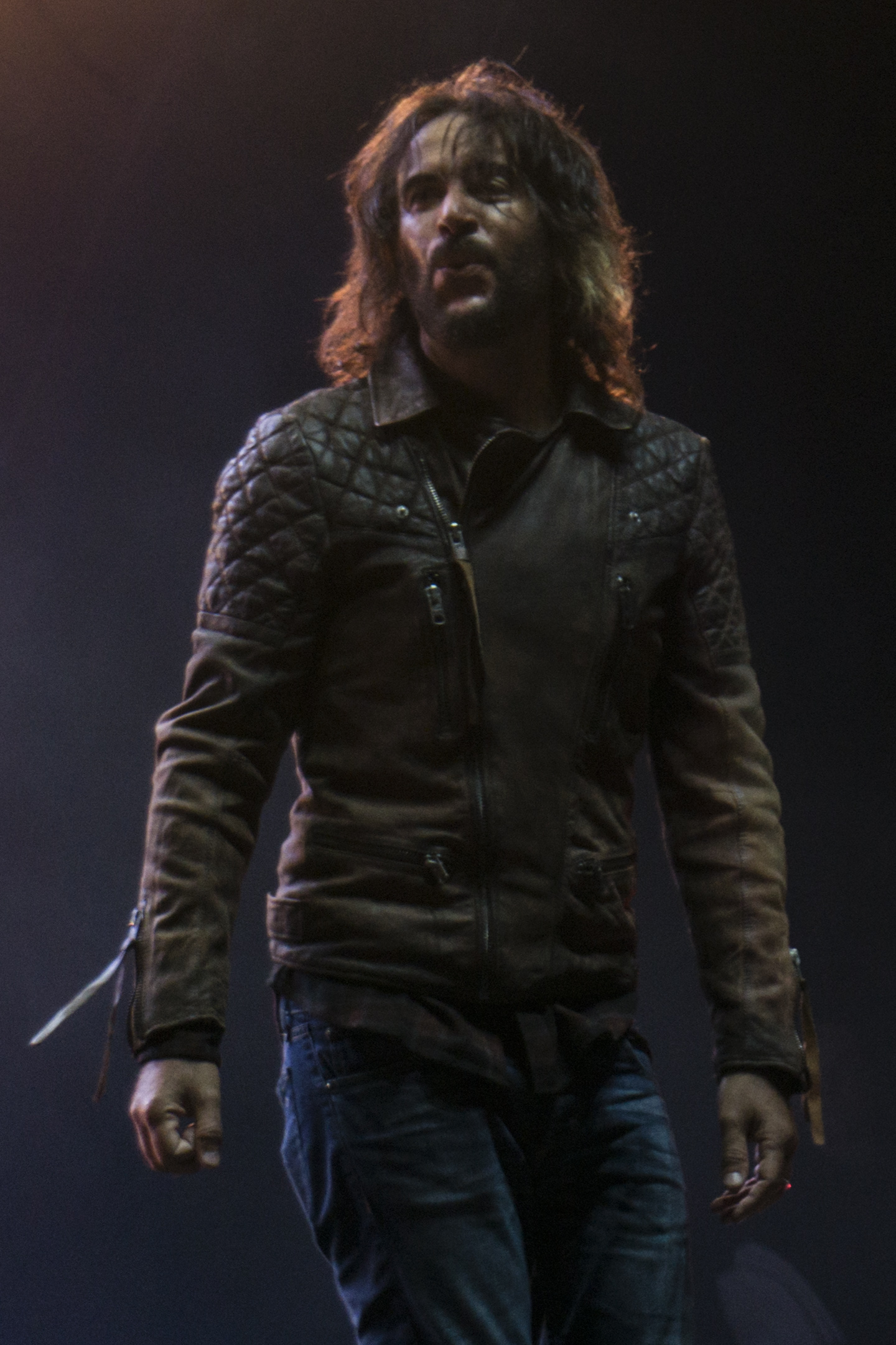 Performance of American rock band Foo Fighters at Lollapalooza Berlin 2017.